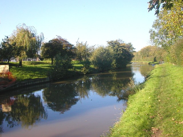 Watford Gap - Grand Union Canal. Where A5, West Coast Mainline, Canal and M1 Motorway run almost side by side.